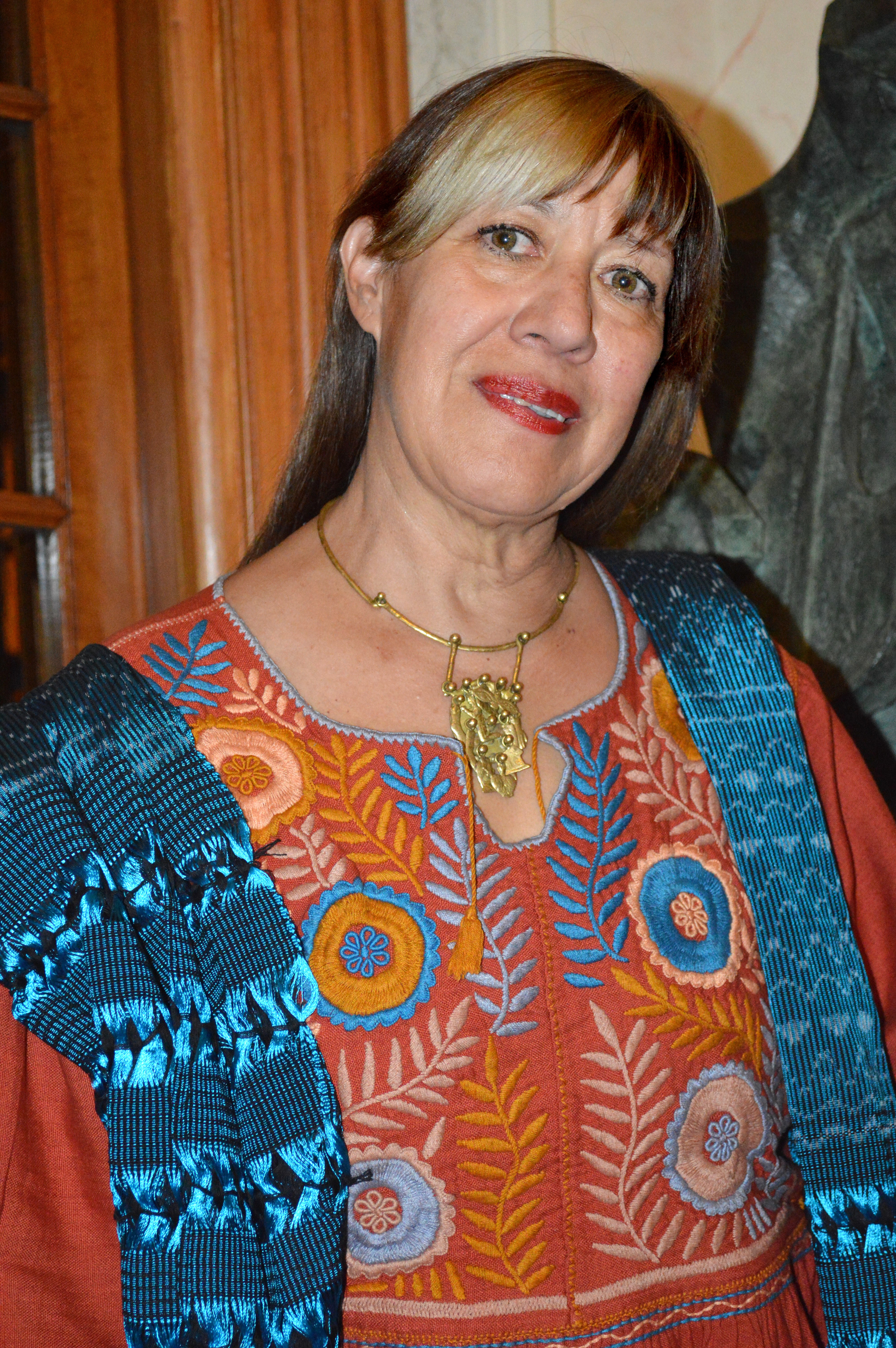 Aliria Morales at the Música y Educación exhibit at the education building of the Spanish embassy in Mexico in Mexico City